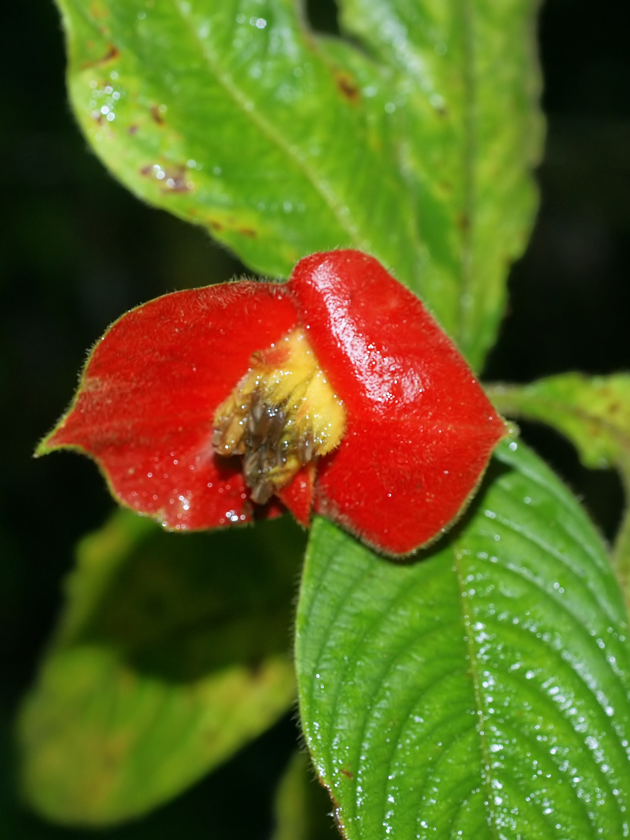 Detail of the red involucre of Hot Lips near Las Horquetas, Costa Rica